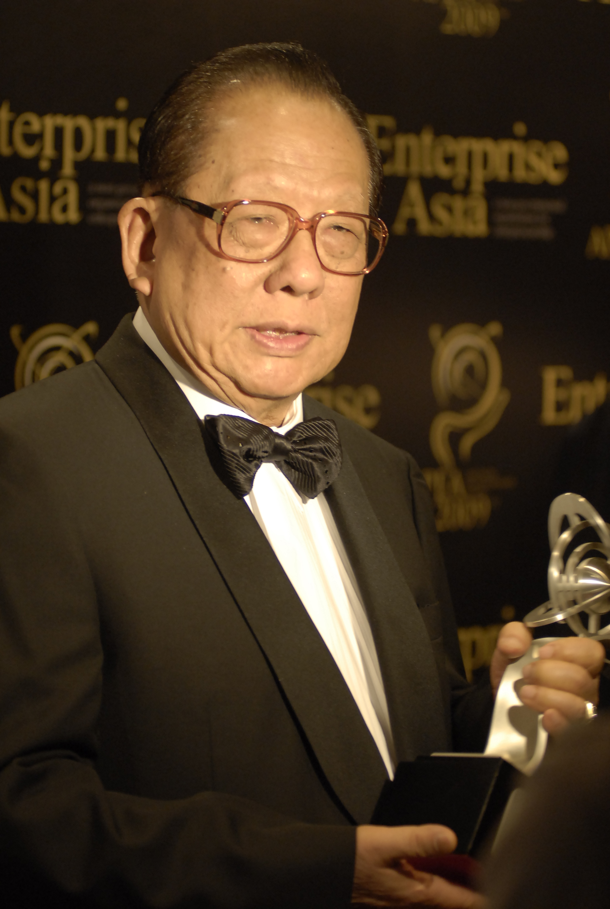 Tan Sri Dato’ Seri (Dr.) Yeoh Tiong Lay at APEA 2009 Malaysia Awards Night, 20 August 2009